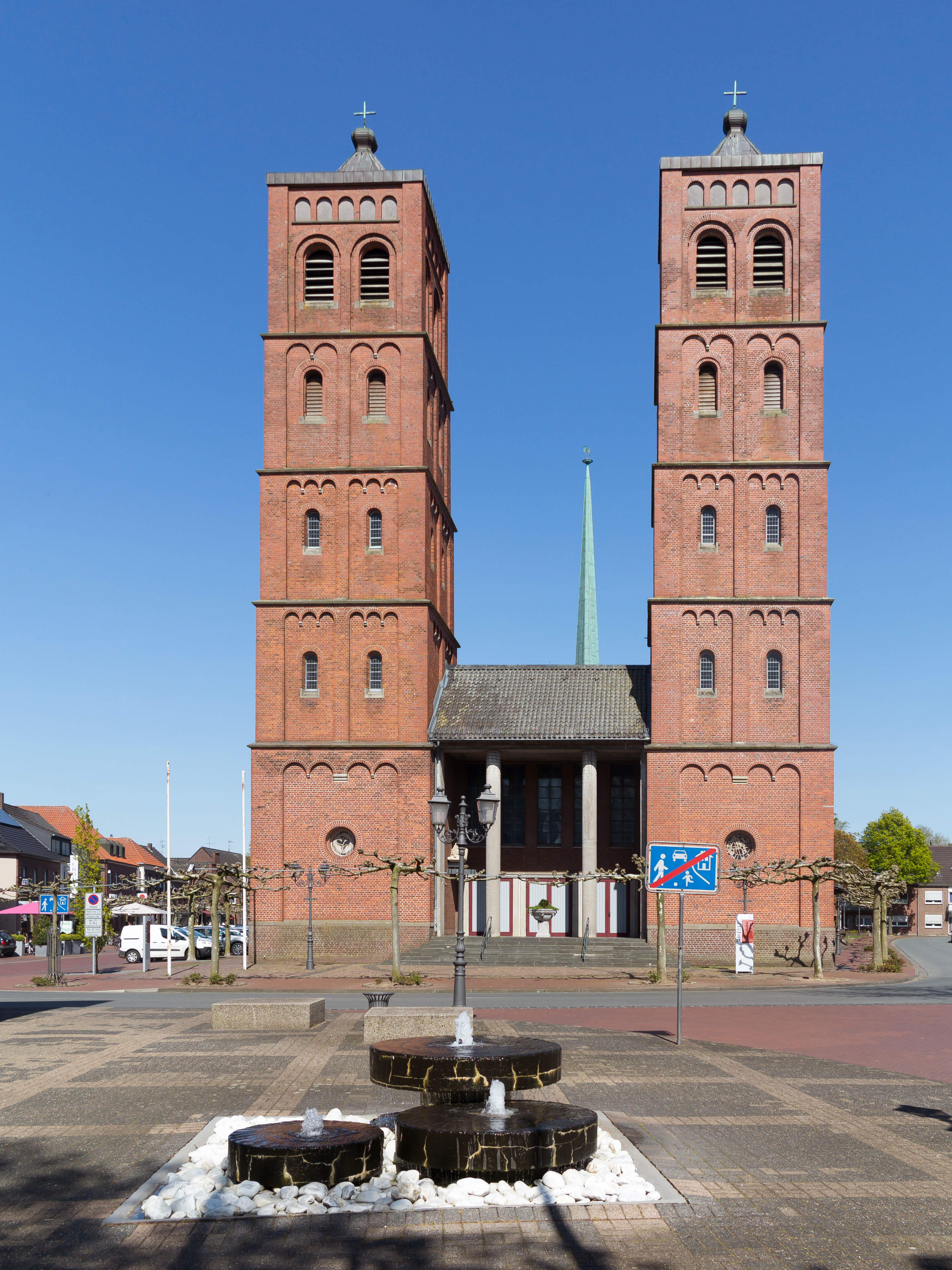 Uedem, church: katholische Pfarrkirche Sankt Laurentius